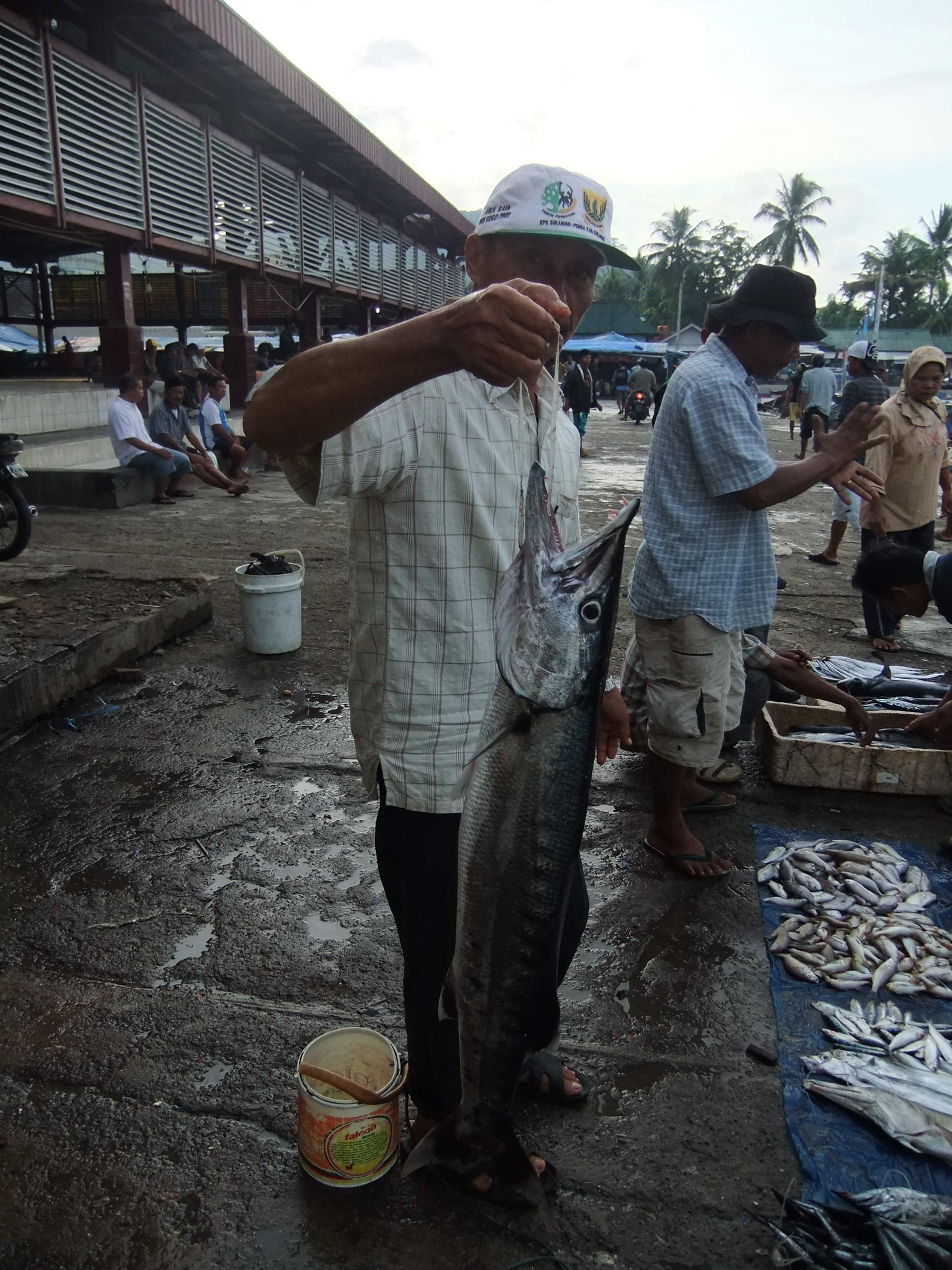 Barracuda (Sphyraena barracuda), Pelabuhan Ratu Fish Market, Sukabumi